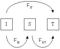 F-statistics diagram. FIT can be partitioned into FST due to the Wahlund effect and FIS due to inbreeding.